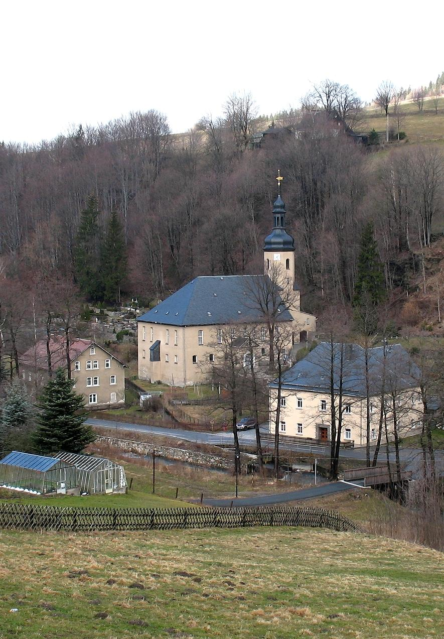 Rittersgrün Church and Ministry